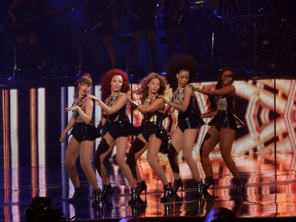 Beyonce performing "Crazy in Love" in Montreal in 2013 during The Mrs. Carter Show World Tour